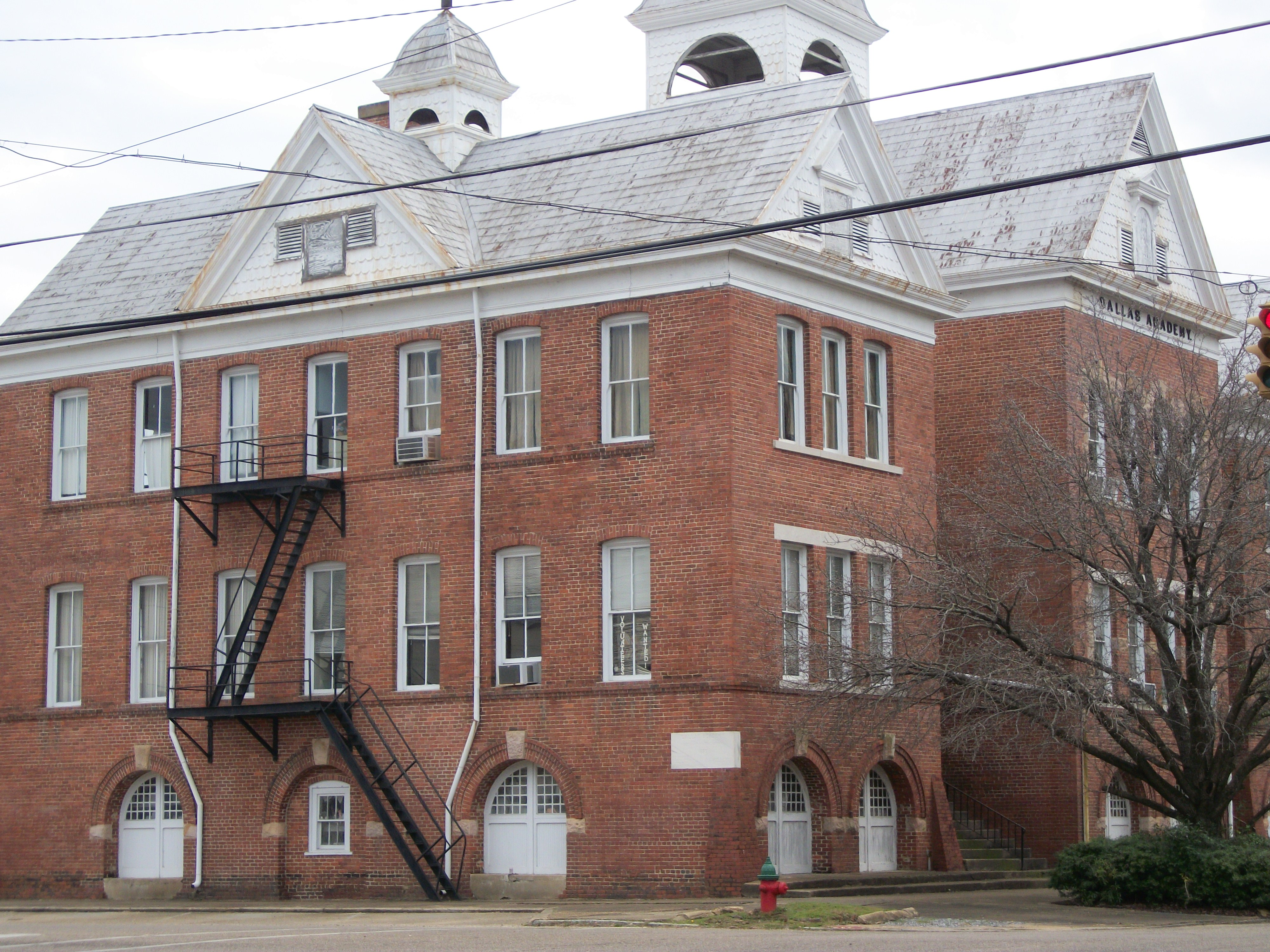 Dallas Academy, Red Cross, Selma, Alabama